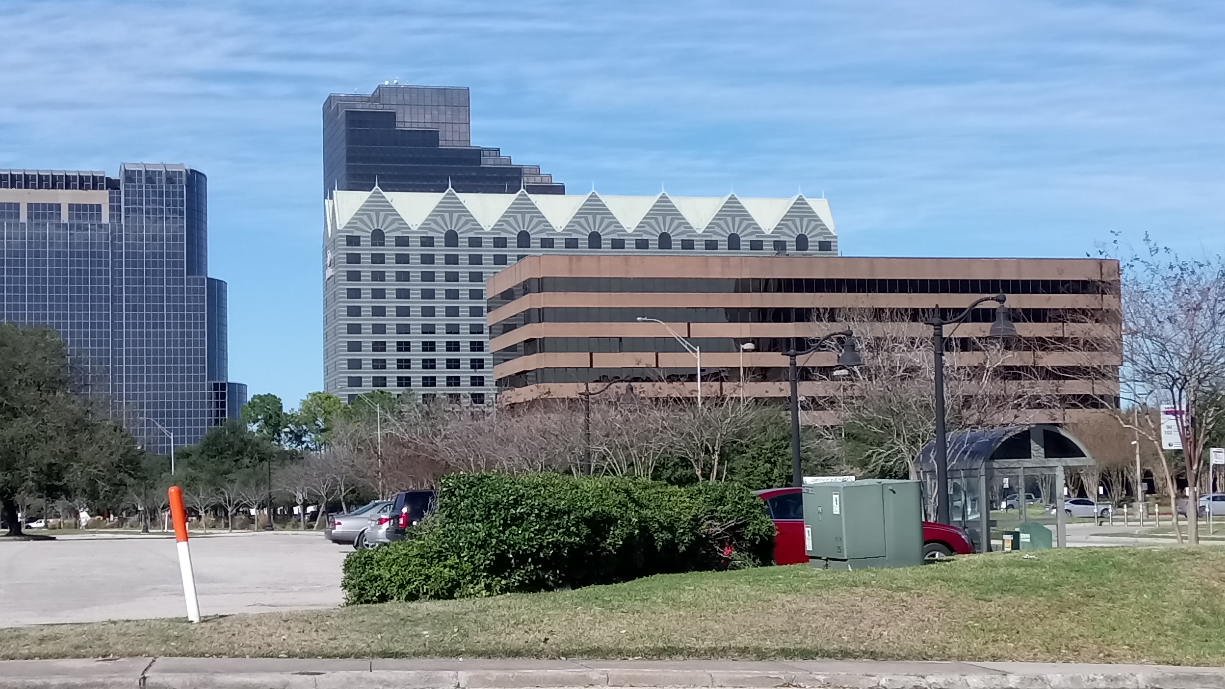 Skyscrapers in Greenspoint